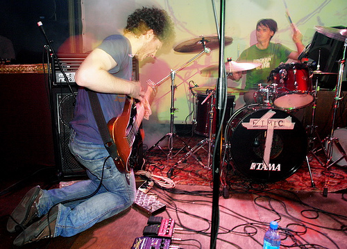 Everything is made in China, Indie rock musical group from Russia